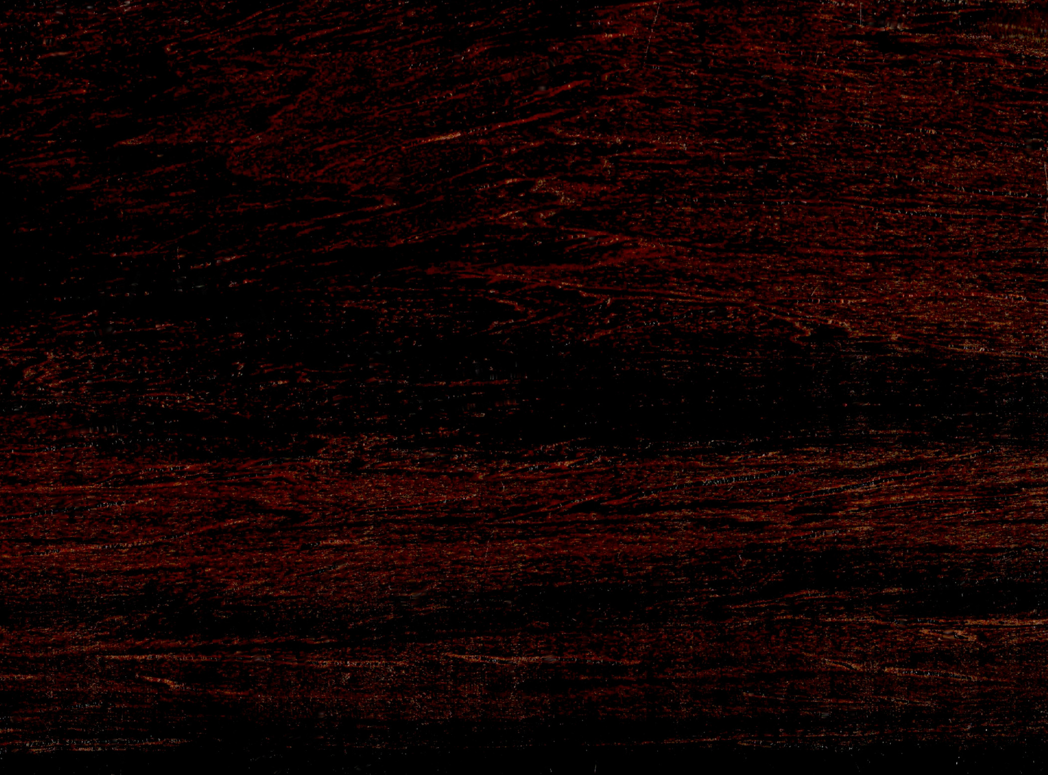 Wood of cocobolo (Dalbergia retusa)